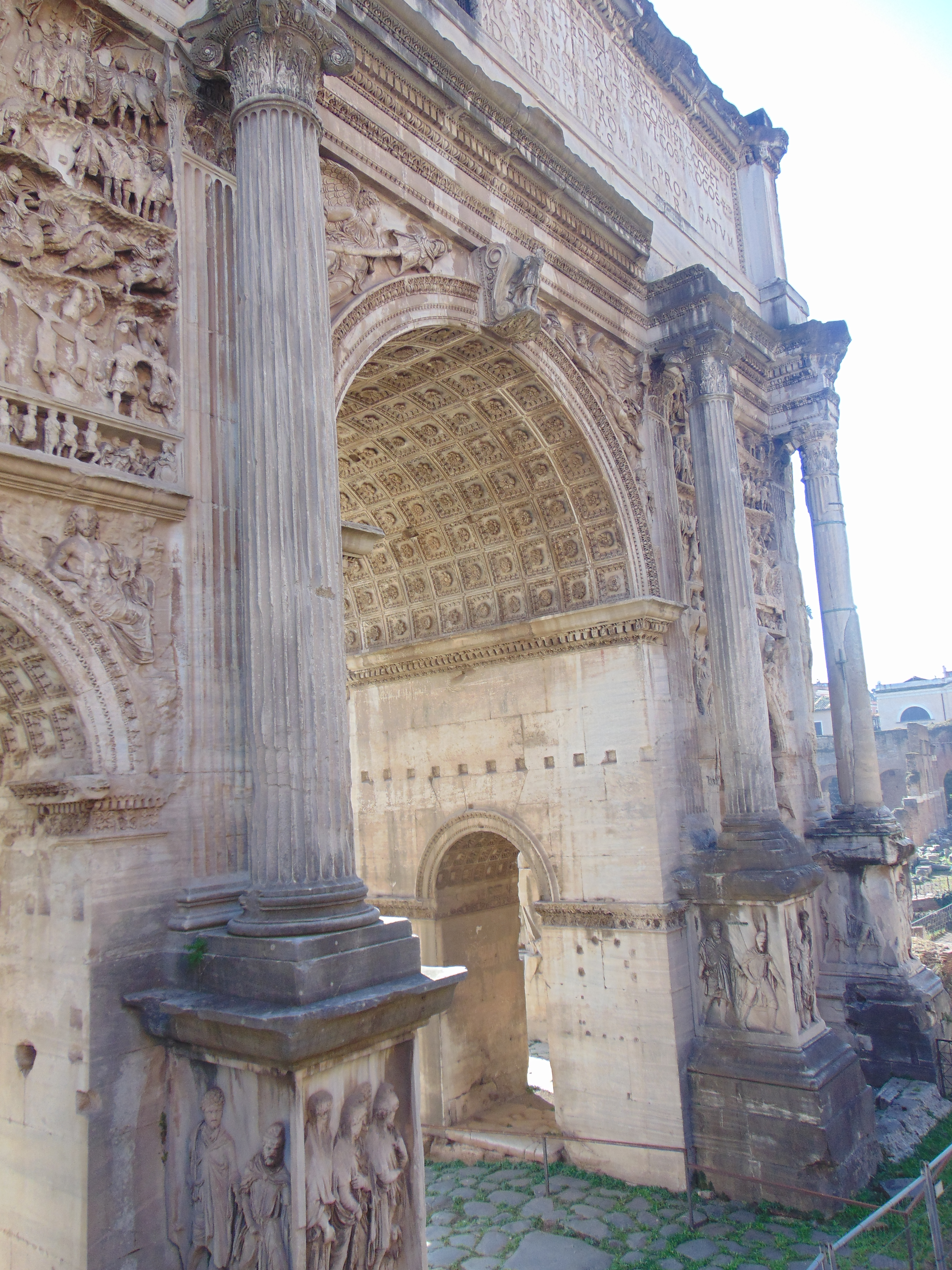 Arch of Septimius Severus (Rome)